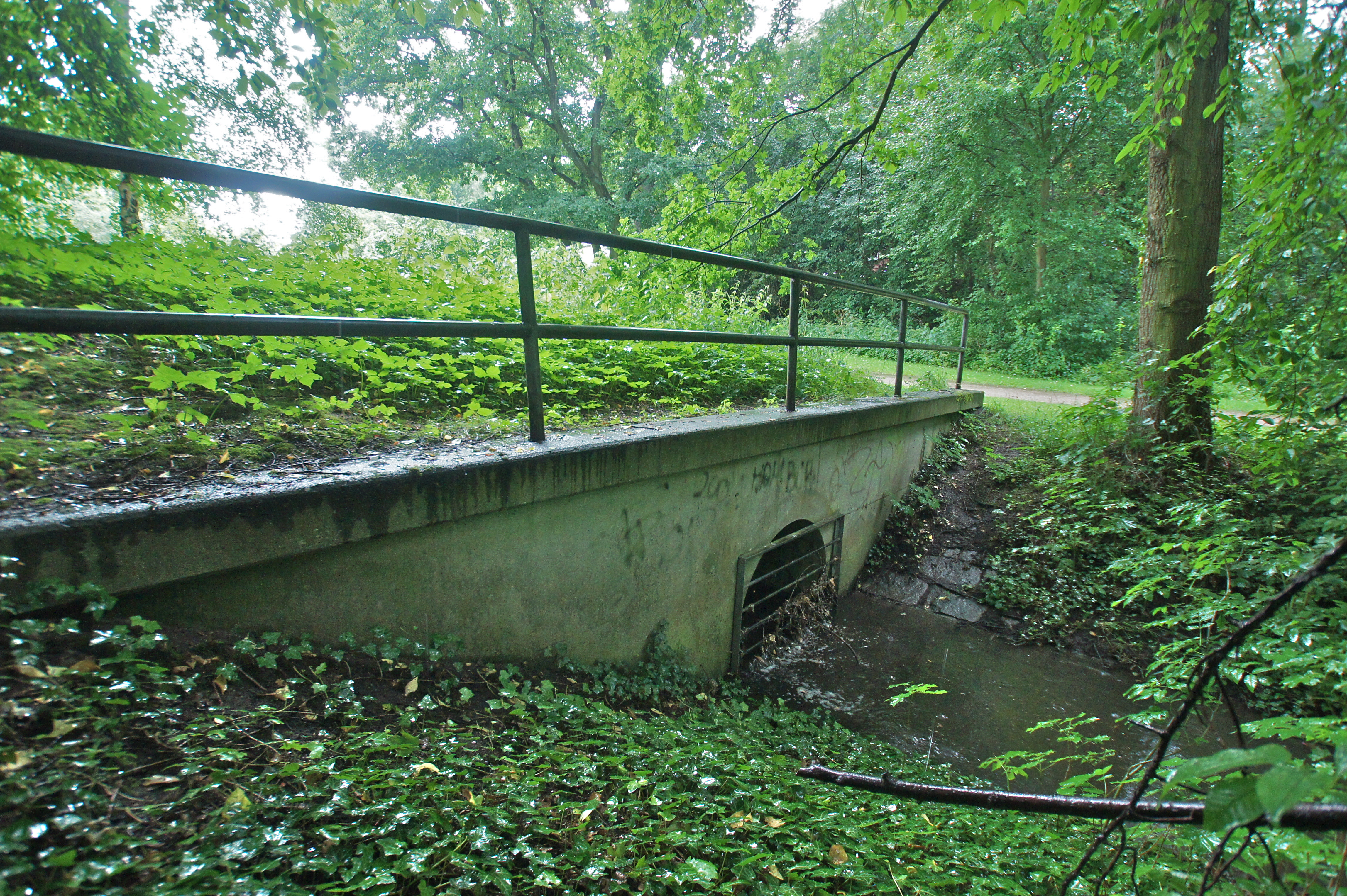 Hamburg (Marmstorf), Germany: The river Schulteichgraben